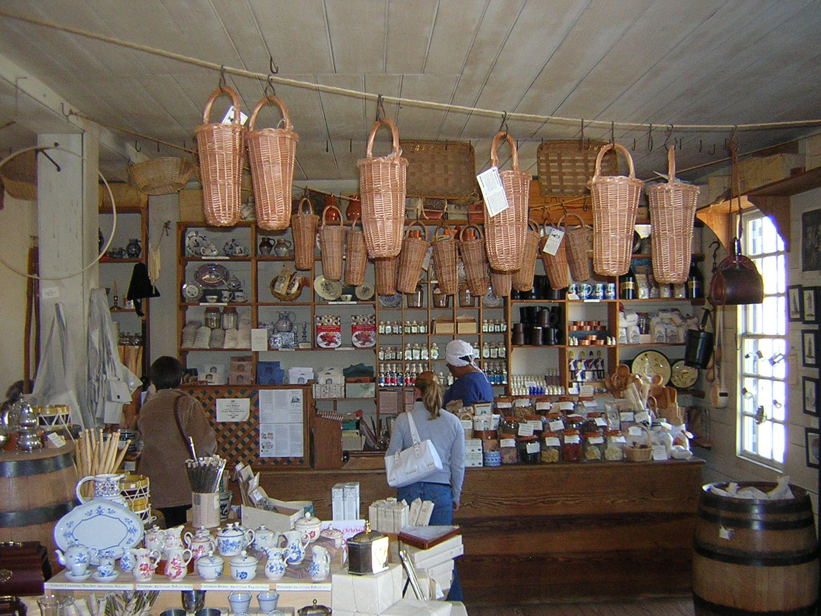 Interior of the Greenhow Store at Wikipedia:Colonial Williamsburg.